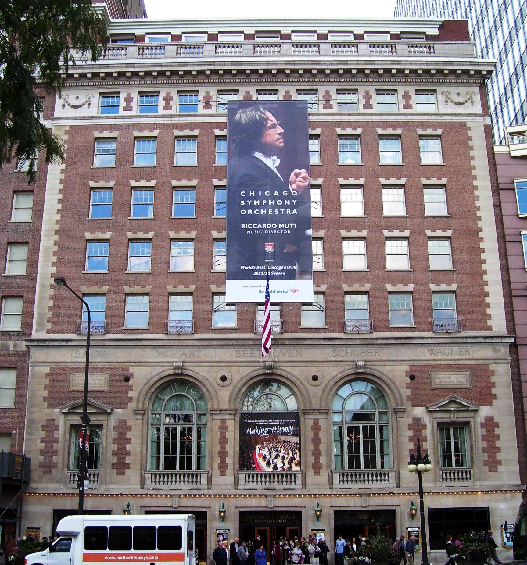 Orchestra Hall on South Michigan Avenue in Chicago, Illinois.